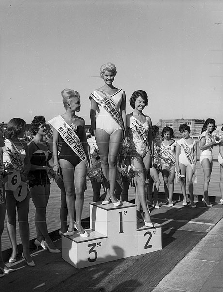 Teitl Saesneg/English title: “Miss Wales” competition sponsored by Rhyl Council, won by an English woman! Ffotograffydd/Photographer: Geoff Charles (1909-2002) Dyddiad/Date: 15/09/1960 Cyfrwng/Medium: Negydd ffilm / Film negative Cyfeiriad/Reference: (gch22531) Rhif cofnod / Record no.: 3470713 Rhagor o wybodaeth am gasgliad Geoff Charles yn Llyfrgell Genedlaethol Cymru More information about the Geoff Charles Collection at the National Library of Wales Mae ffotograffau Geoff Charles hefyd yn rhan o Broject Europeana Libraries Geoff Charles' photographs also form part of the Europeana Libraries Project